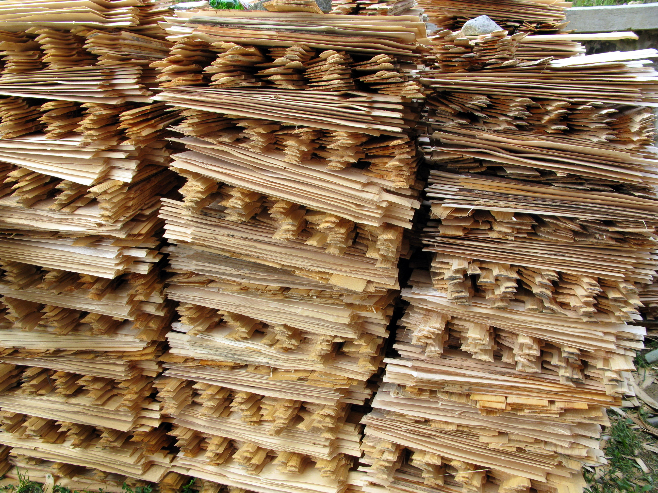 Stack of shingles beside the church of Monastery Botiza in Maramureş Mountains (Inner Eastern Carpathians) in north of Rumania / EU.